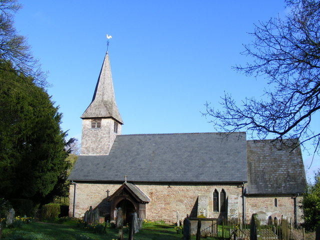 St Andrew's Church In Ashford Bowder.